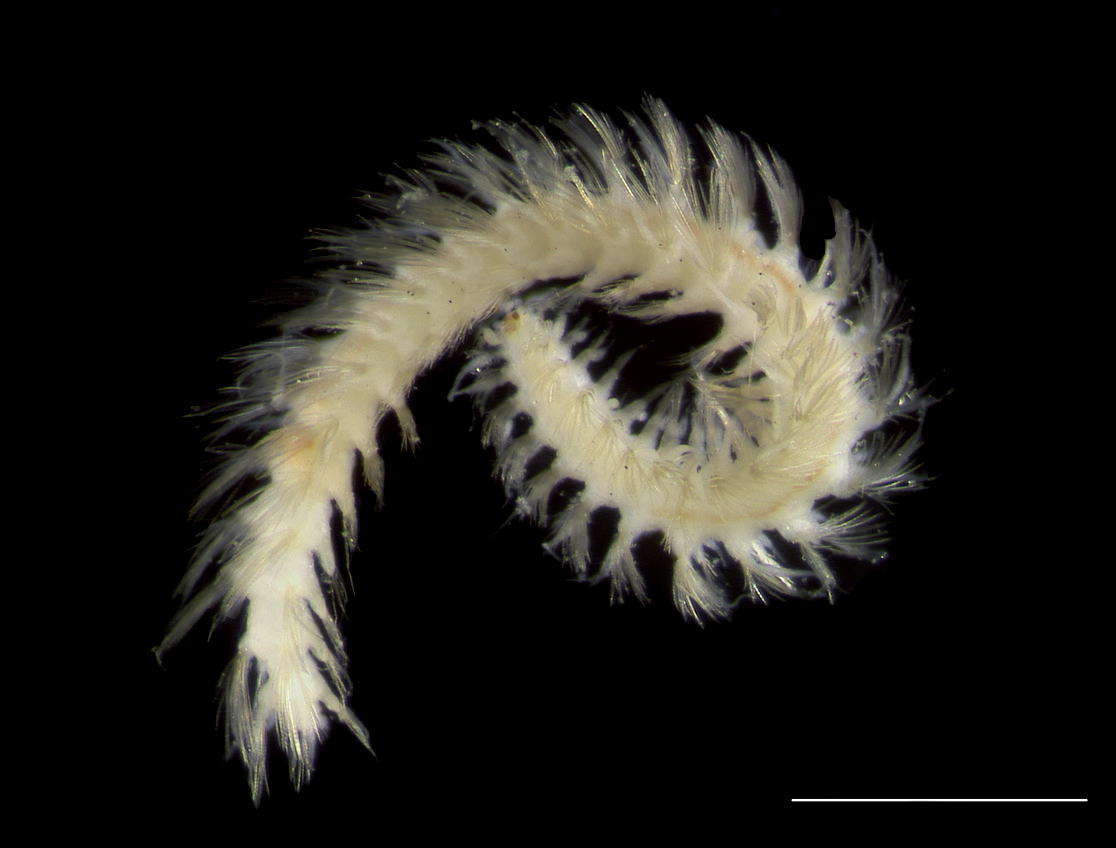 Fig. 2. Dysponetus joeli Olivier et al., 2012. NMW.Z.2009.027.0003, whole specimen, dorsal view (scale bar 1 mm).